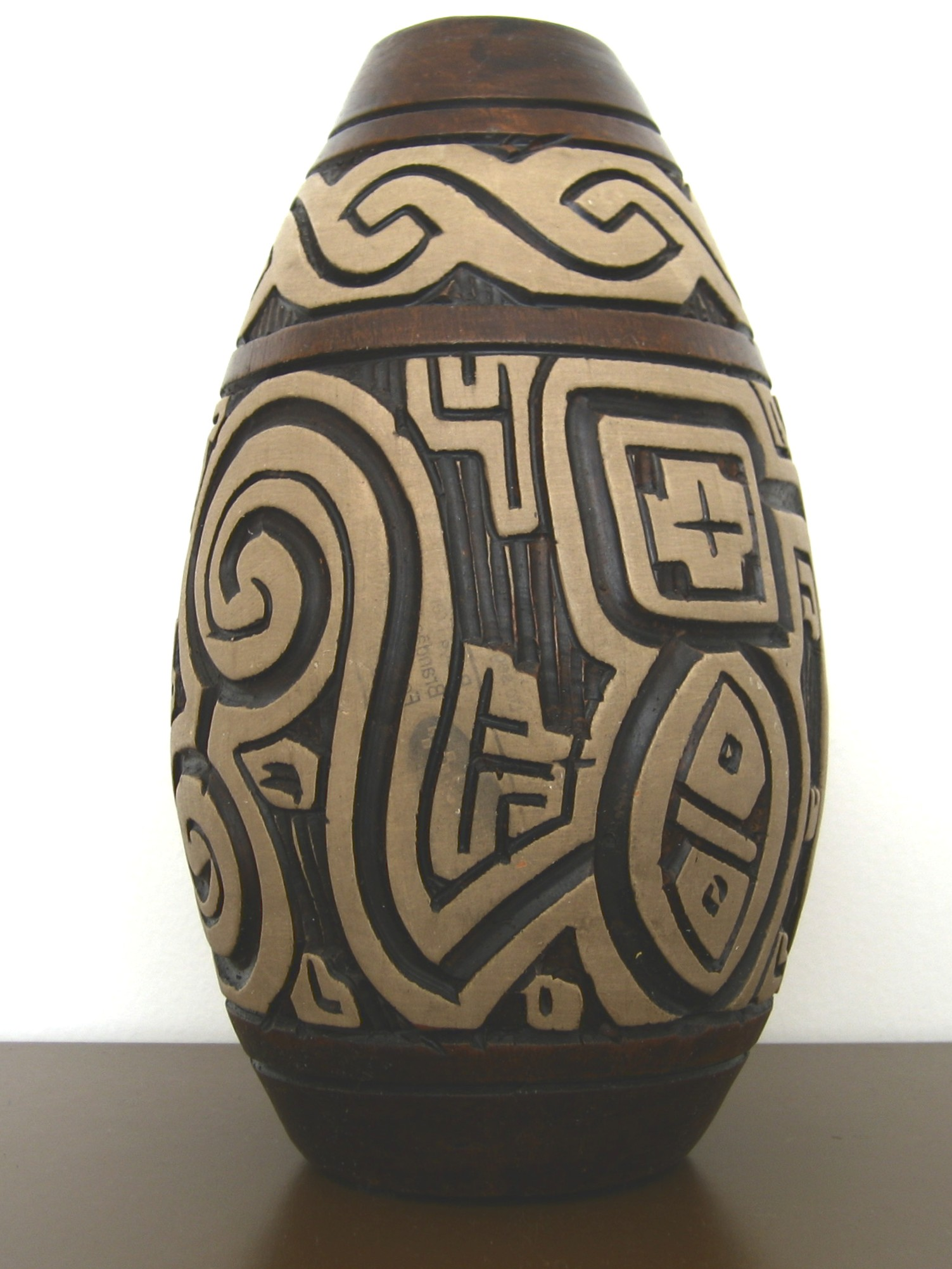 Marajoara Pottery